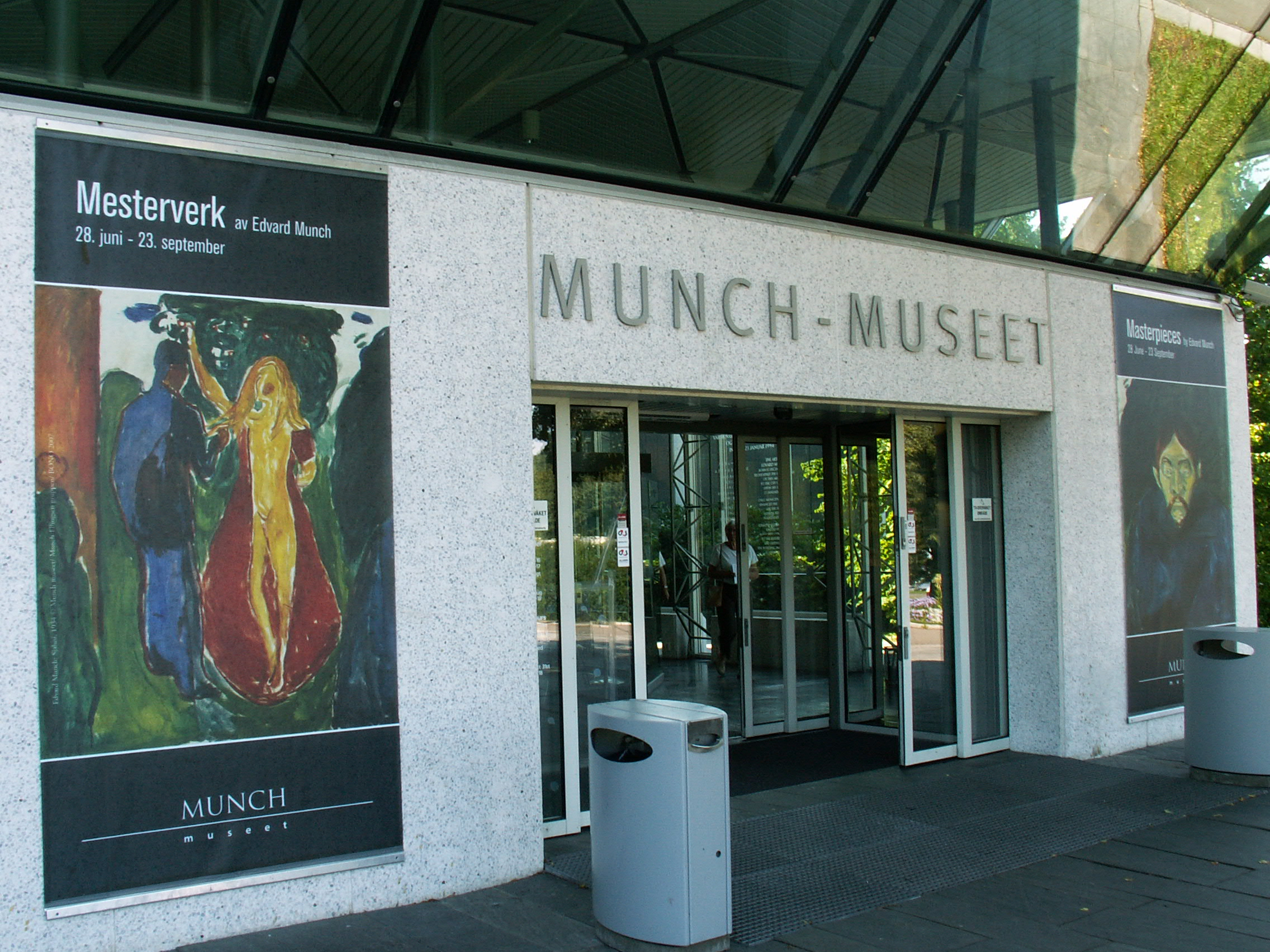 Oslo Munch Museet (entry)